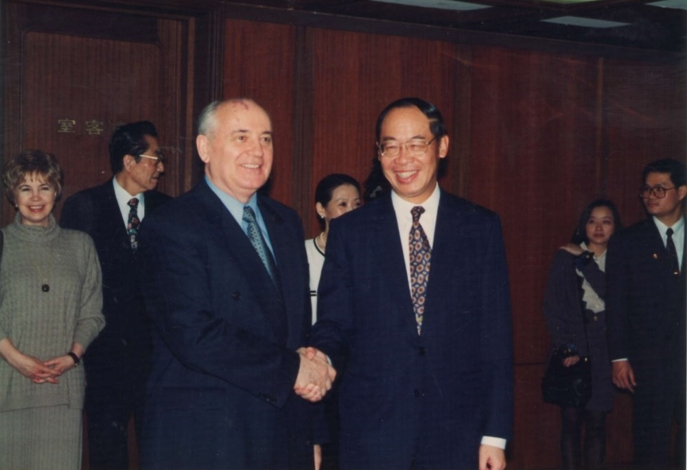 Chien-Gorbachev, 1994-03-21